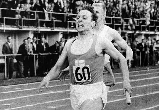 Voitto Hellsten